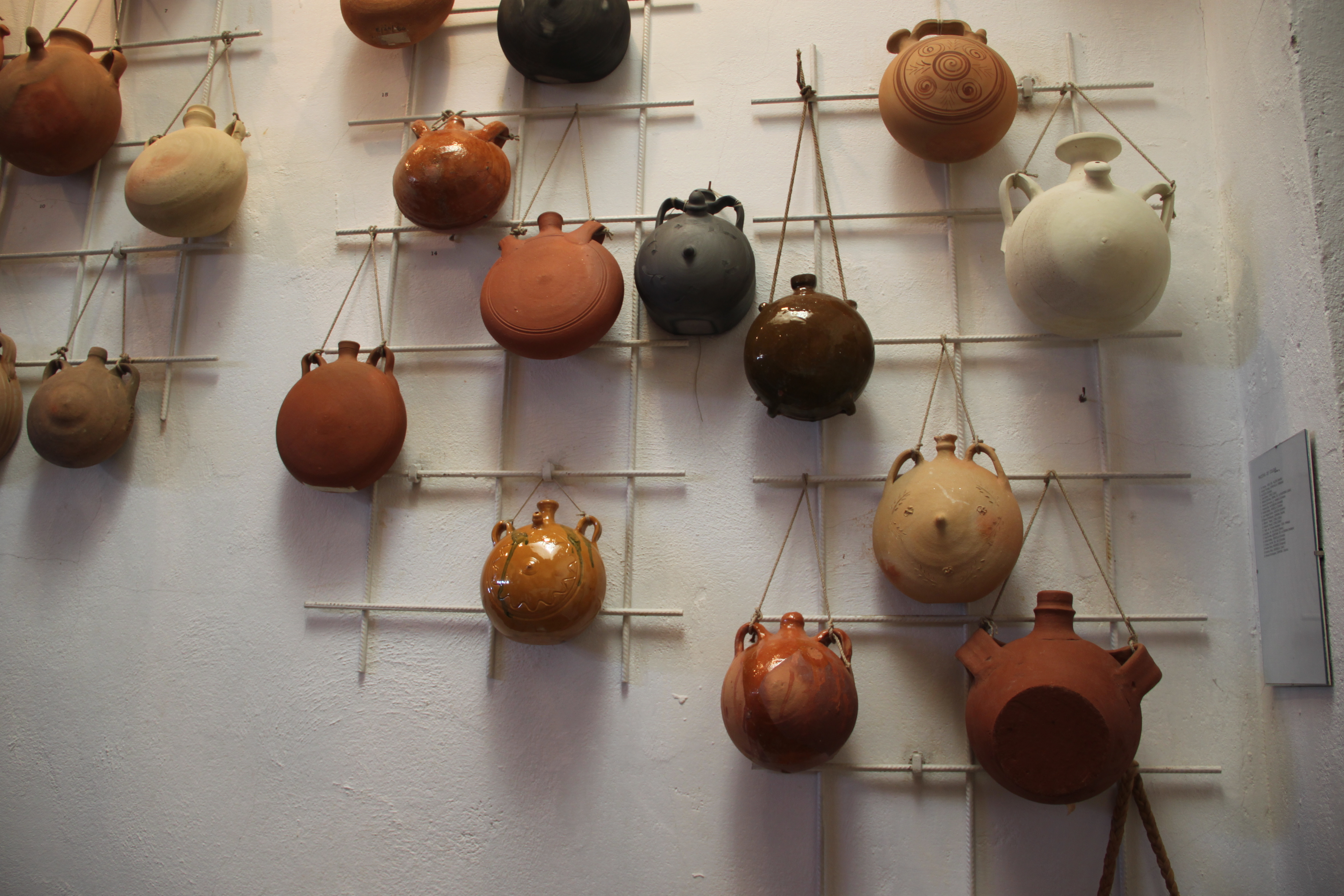 Spanish pottery collection from the Museo de Cerámica de Chinchilla de Monte-Aragón (Albacete).